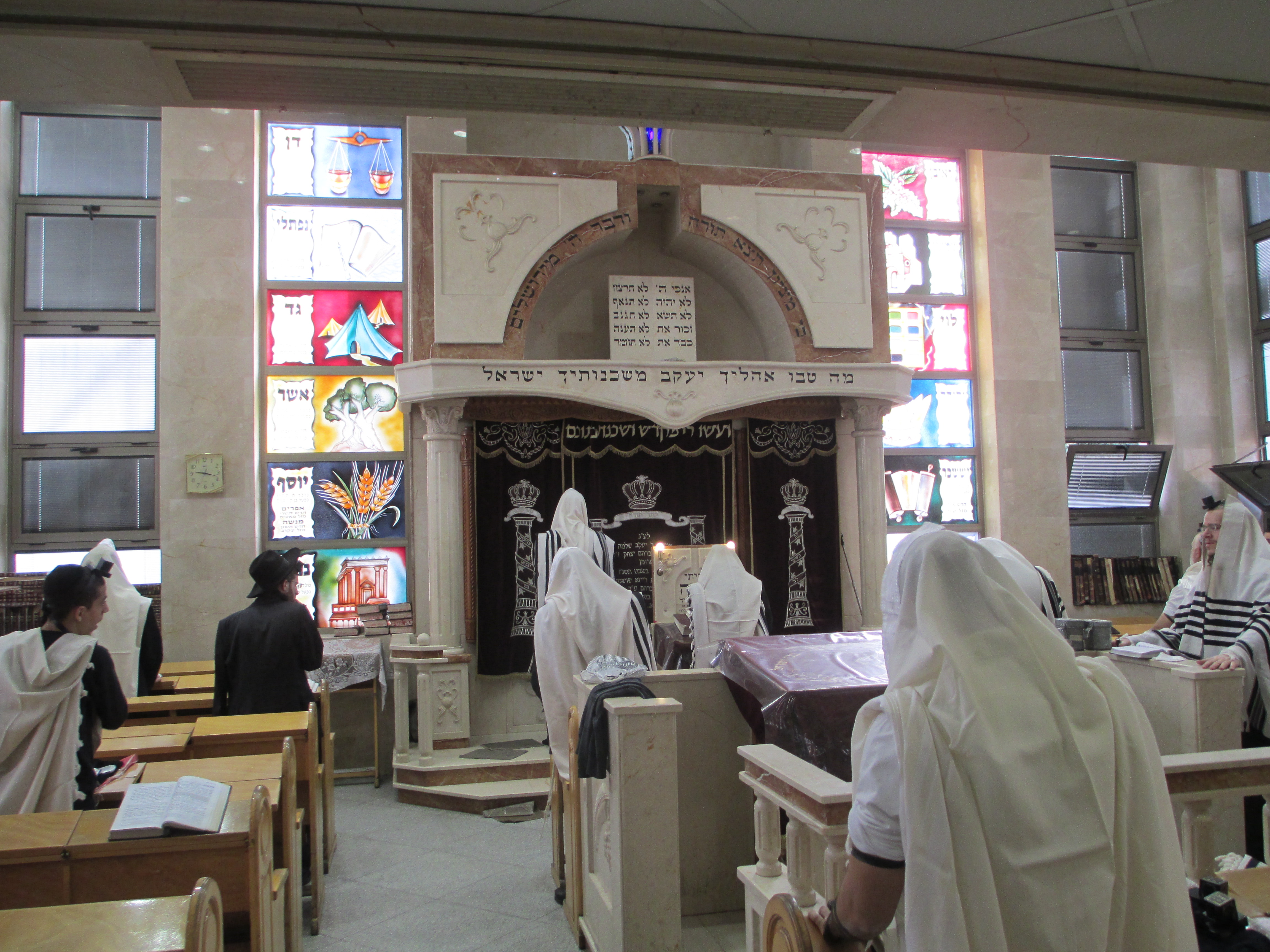 Itzkowitz synagogue in Bnei Brak